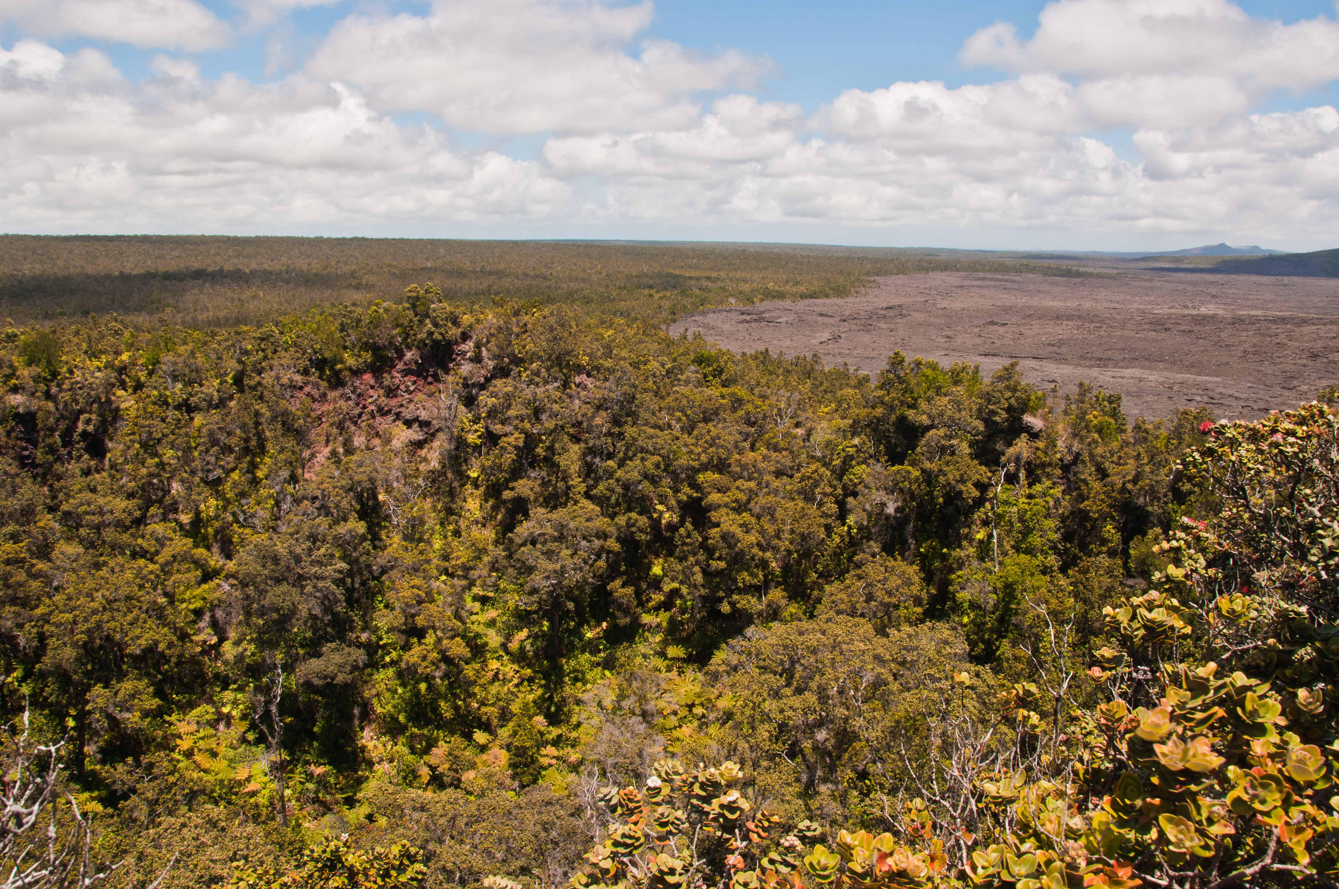 Puʻu Huluhulu Crater with Mauna Ulu lava flows in background and Puʻu ʻŌʻō in the far background, Kilauea, Hawaii, United States